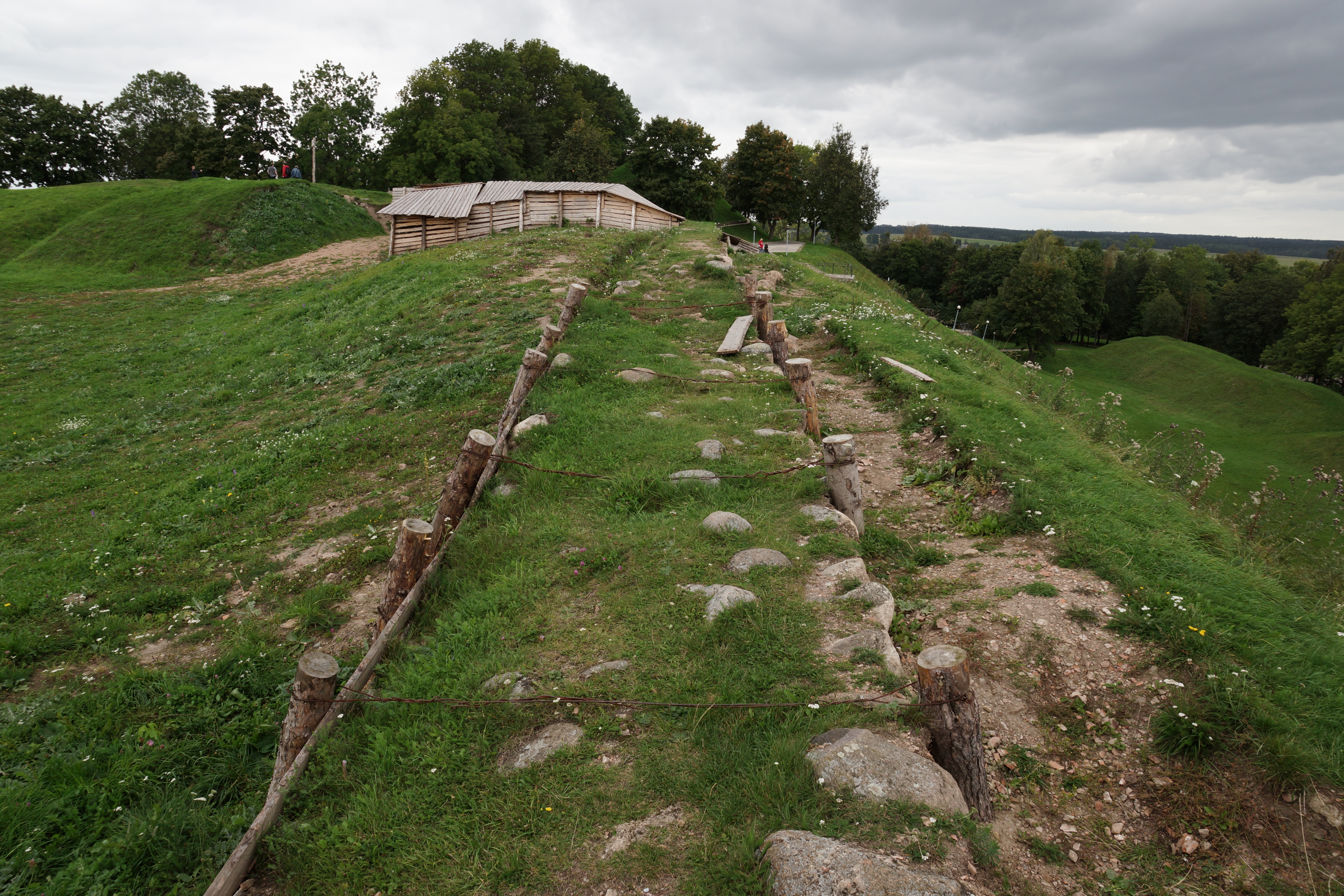 Беларуская (тарашкевіца): Рэшткі замка. г. Наваградак This is a photo of Belarusian heritage monument. Reference number: 411Г000404 ( WLM)